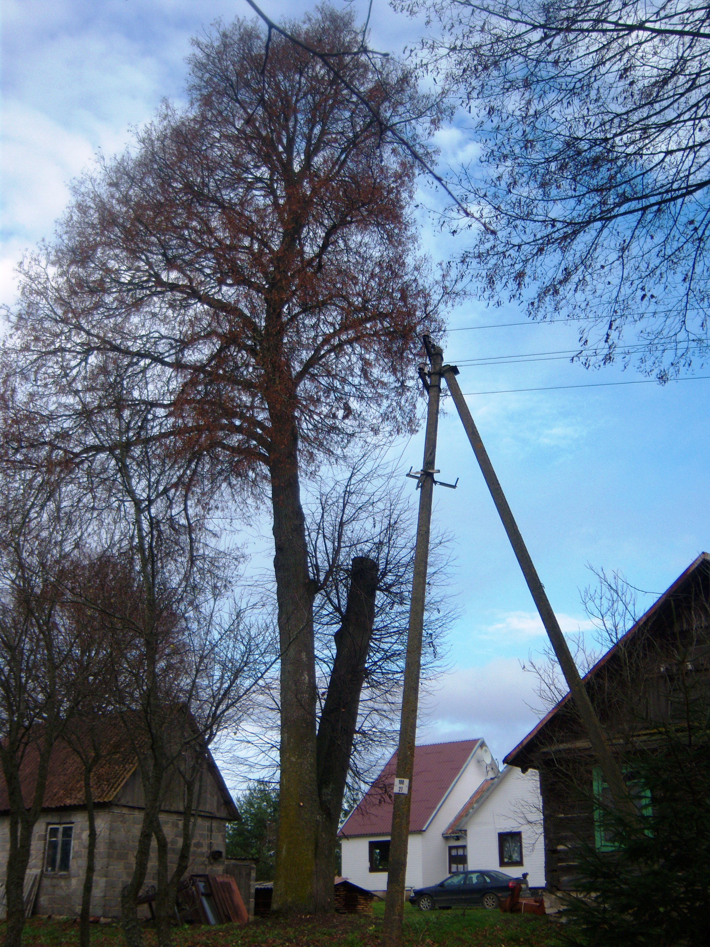 Lesotos lime tree, Kaišiadorys District, Lithuania